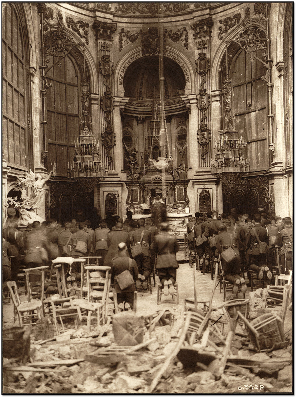 A Thanksgiving Service, attended by Canadian troops, being held in the Cambrai Cathedral (Notre-Dame de Grâce chapel)